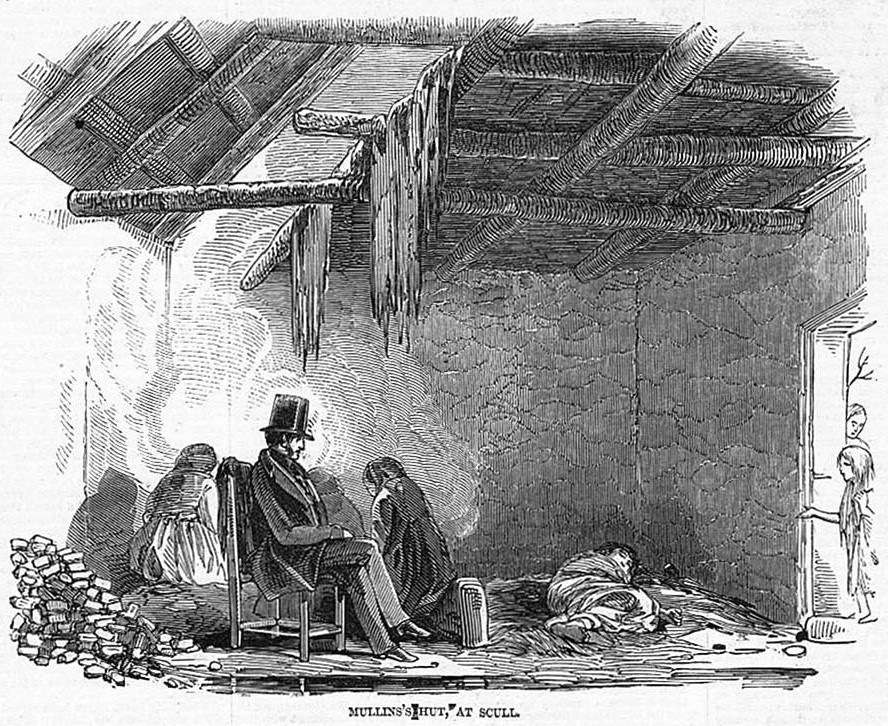 The Famine; Mullins Hut at Scull at Cahera Co Cork